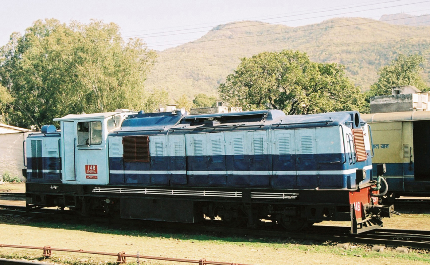 Kalka-Simla Railway. YDM3 Class Diesel No.148 acting as yard pilot at Kalka Station. 12th February 2005 Photographer - A.M.Hurrell Camera - Minolta X700 (35mm film) Modified - Scanned by film developer. File size and definition changed using Adobe Photoshop 5.0LE